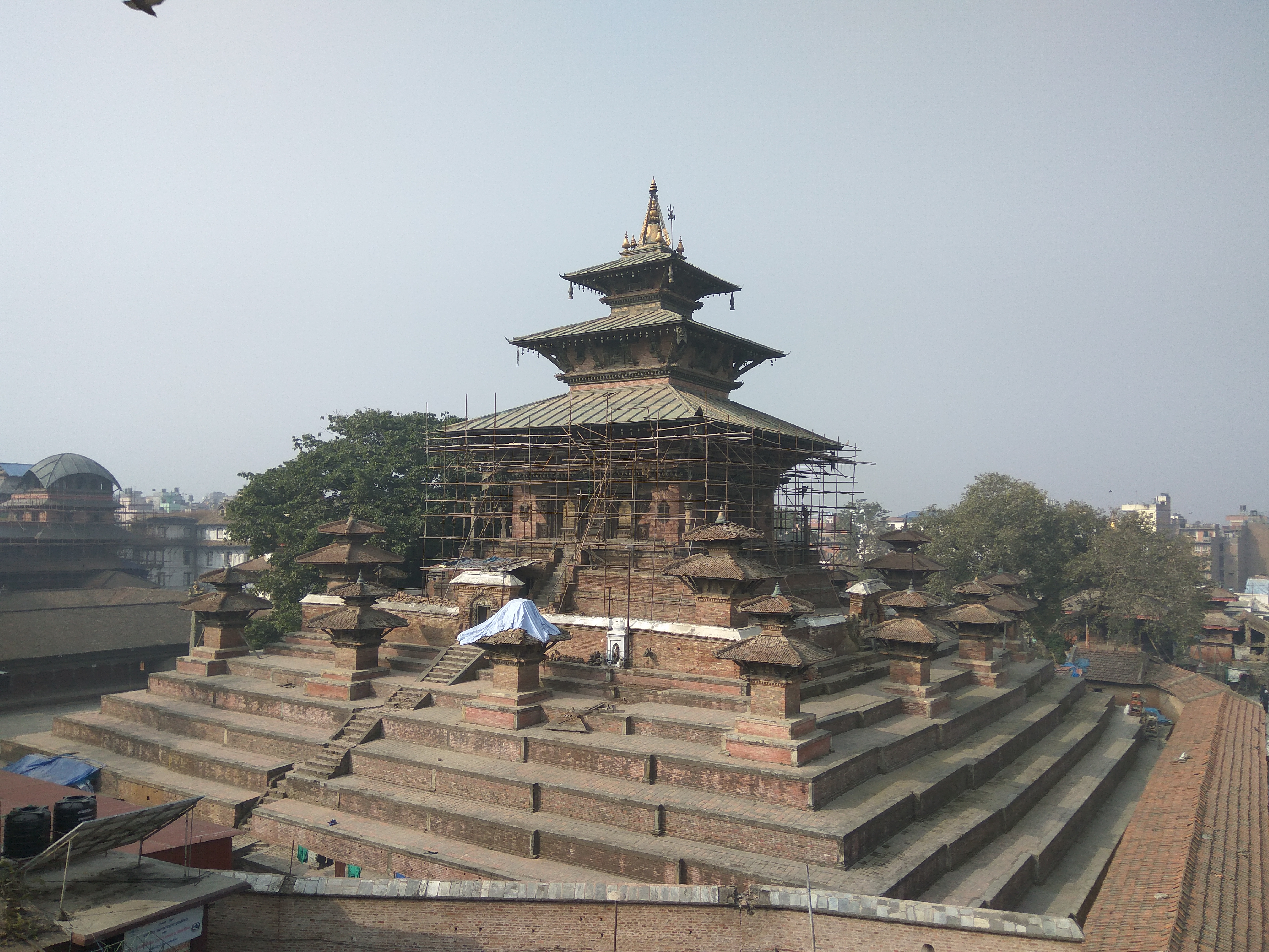 Talaju Temple.